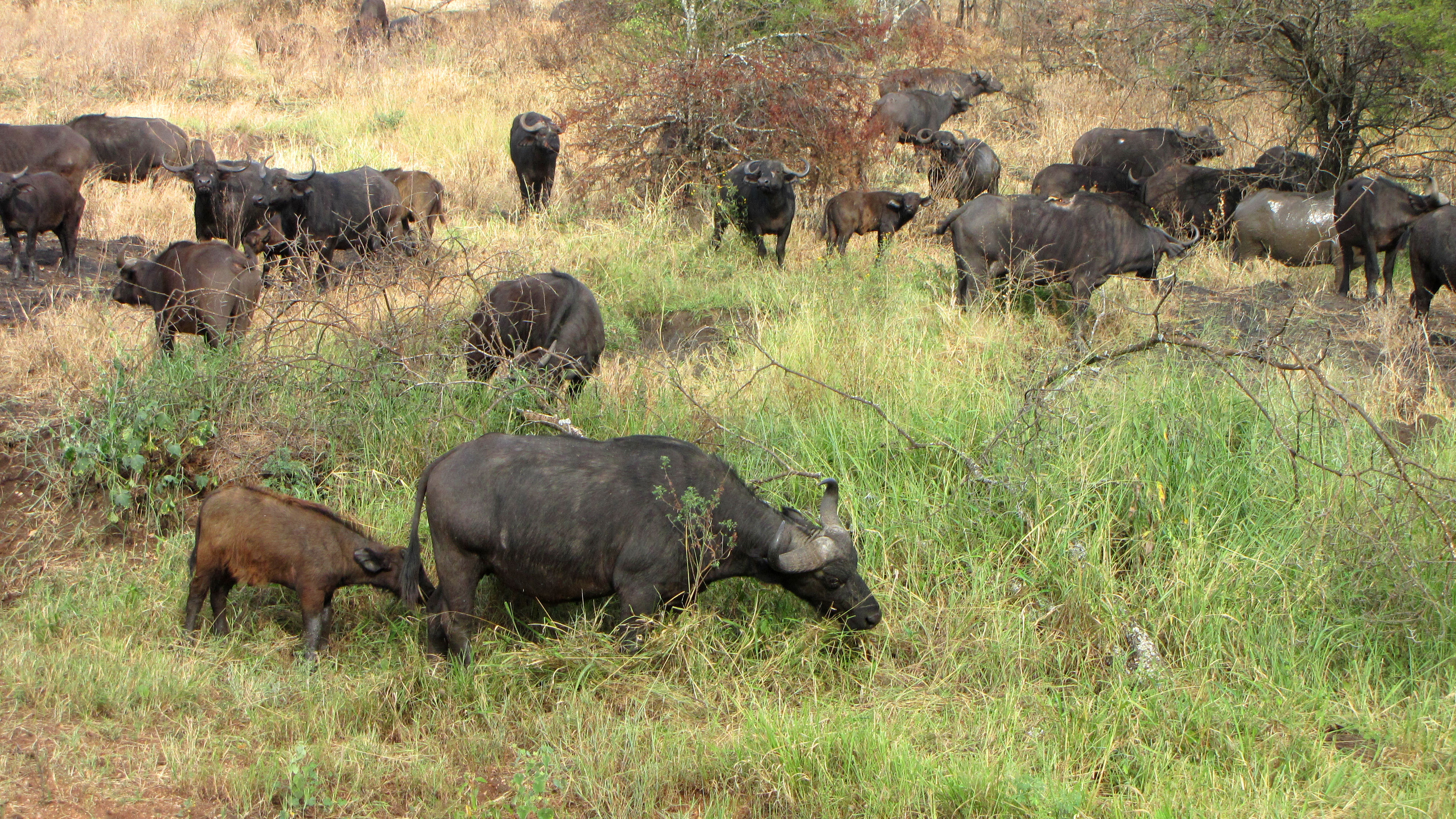 African Buffalo (Syncerus caffer), Serengeti NP, Tanzania